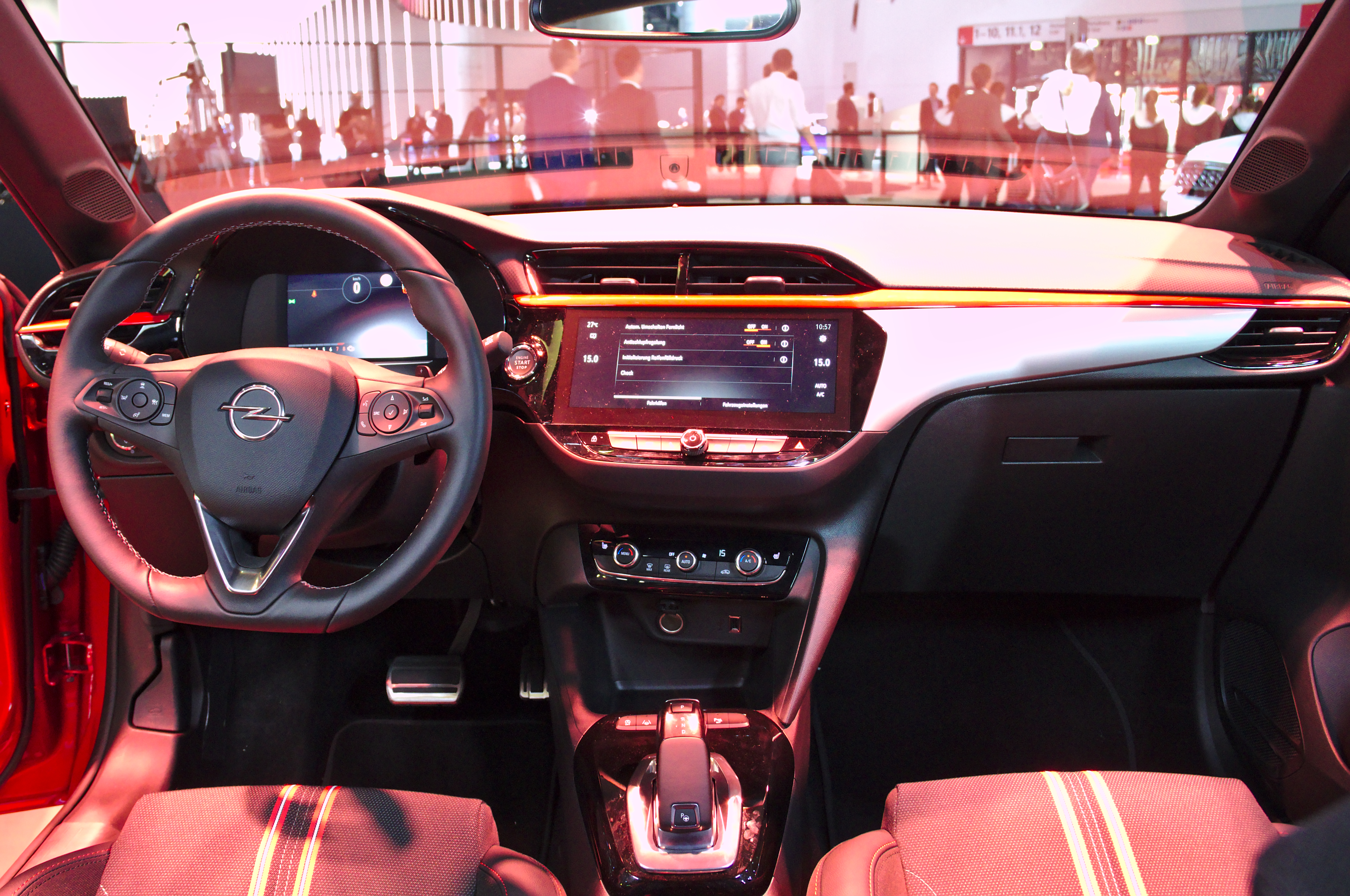 Opel_Corsa_F at IAA 2019